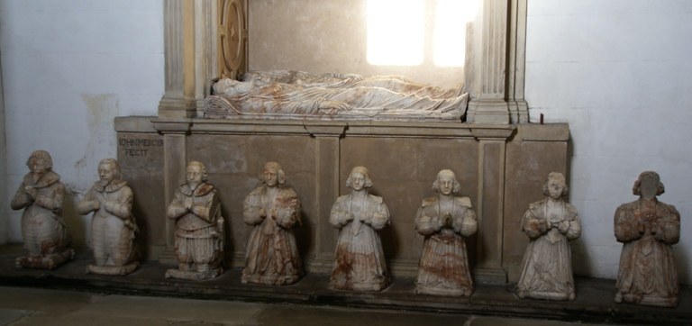 Culross Abbey, Culross, Fife, Scotland - detail of the Bruce Vault